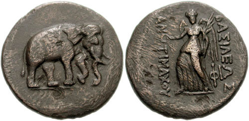 Antimachos I coin. Circa 174-165 BC. Æ Double Unit (25mm, 8.27 g, 12h). Indian elephant, wearing bell around neck, standing right, left foot raised / BASILEWS ANTIMACOU, Nike advancing left, head facing, holding wreath in outstretched right hand and cradling palm in left arm; FI to inner right.